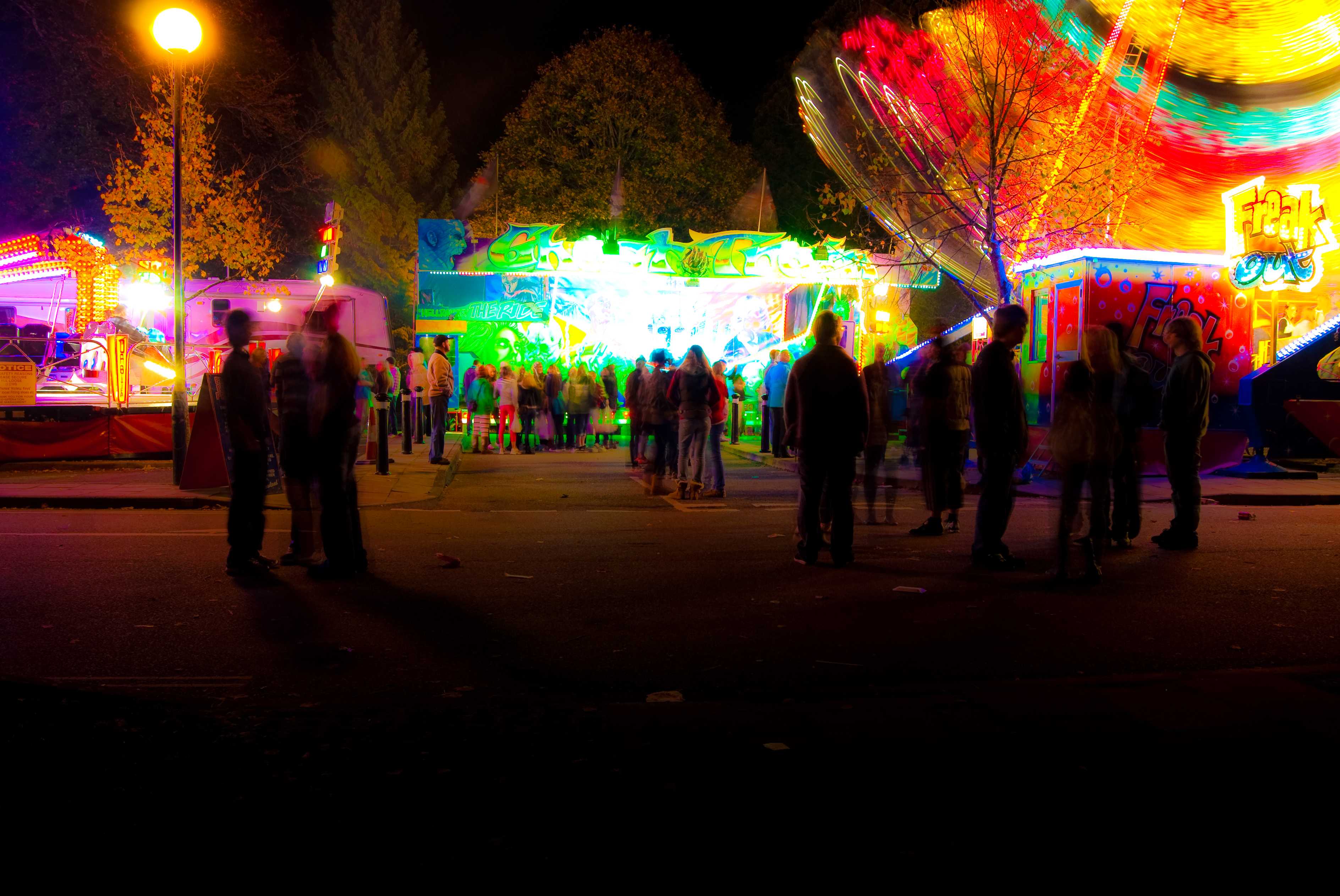 Night-time long exposure shot of Tavistock Goose Fair